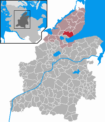 Locator maps of municipalities in Schleswig-Holstein - District Rendsburg-Eckernförde